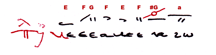 Transcription according Mount Athos, Monastery of Agios Dionysios, Ms. 570, fol. 21’